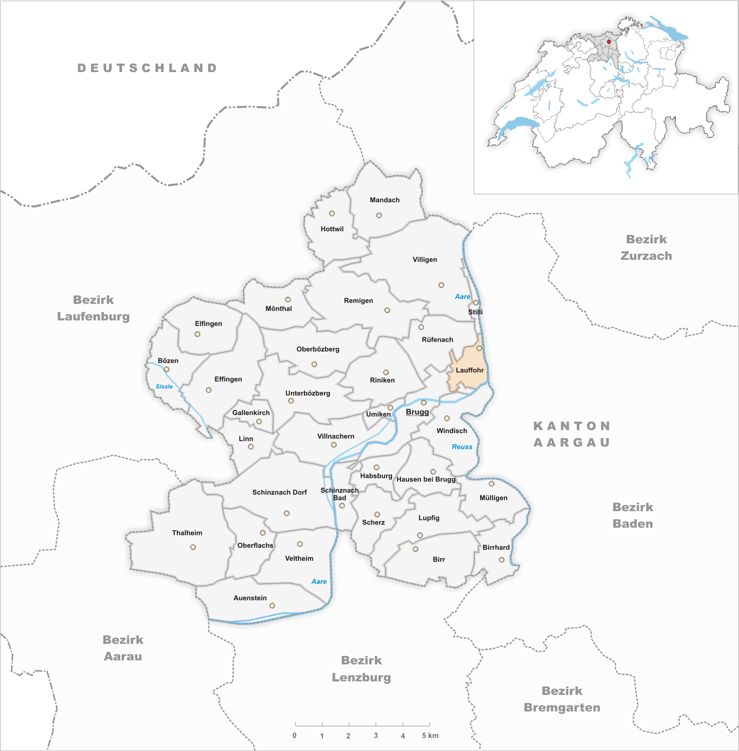 Municipality Lauffohr